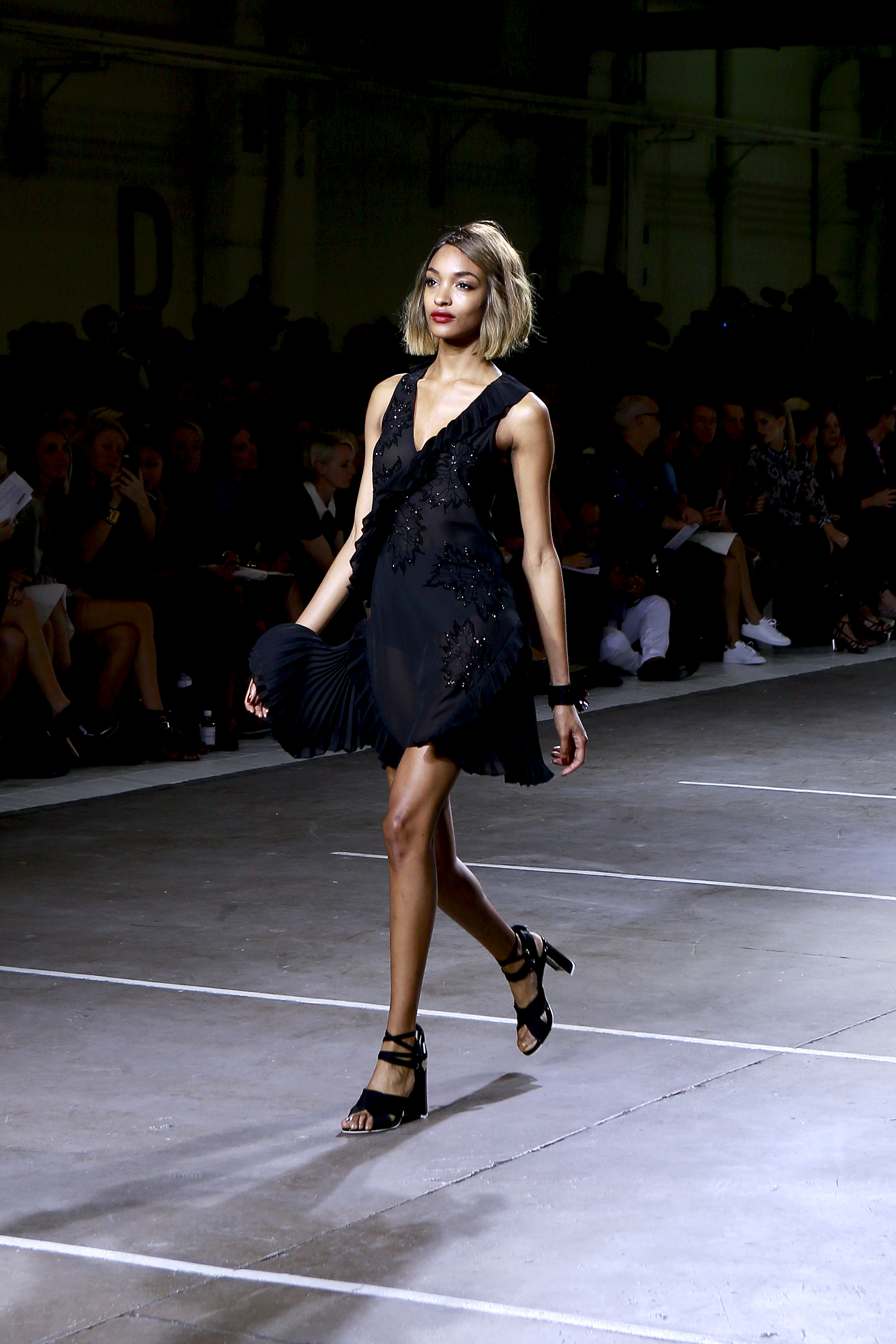 model Jourdan Dunn